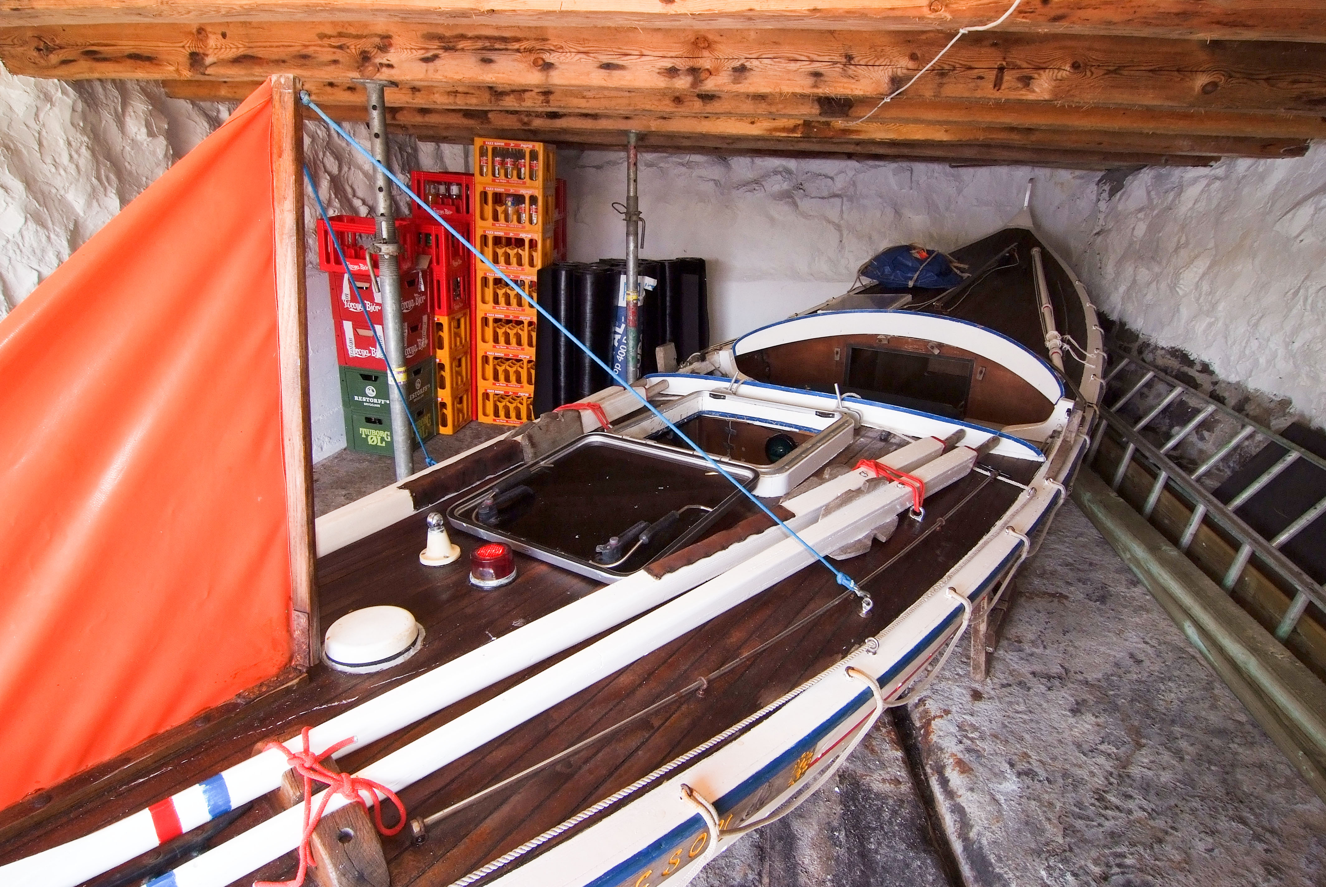 "Diana Victoria", the legendary Faroe boat of Ove Joensen, in which he rowed alone within 41 days from the Faroes to Copenhagen